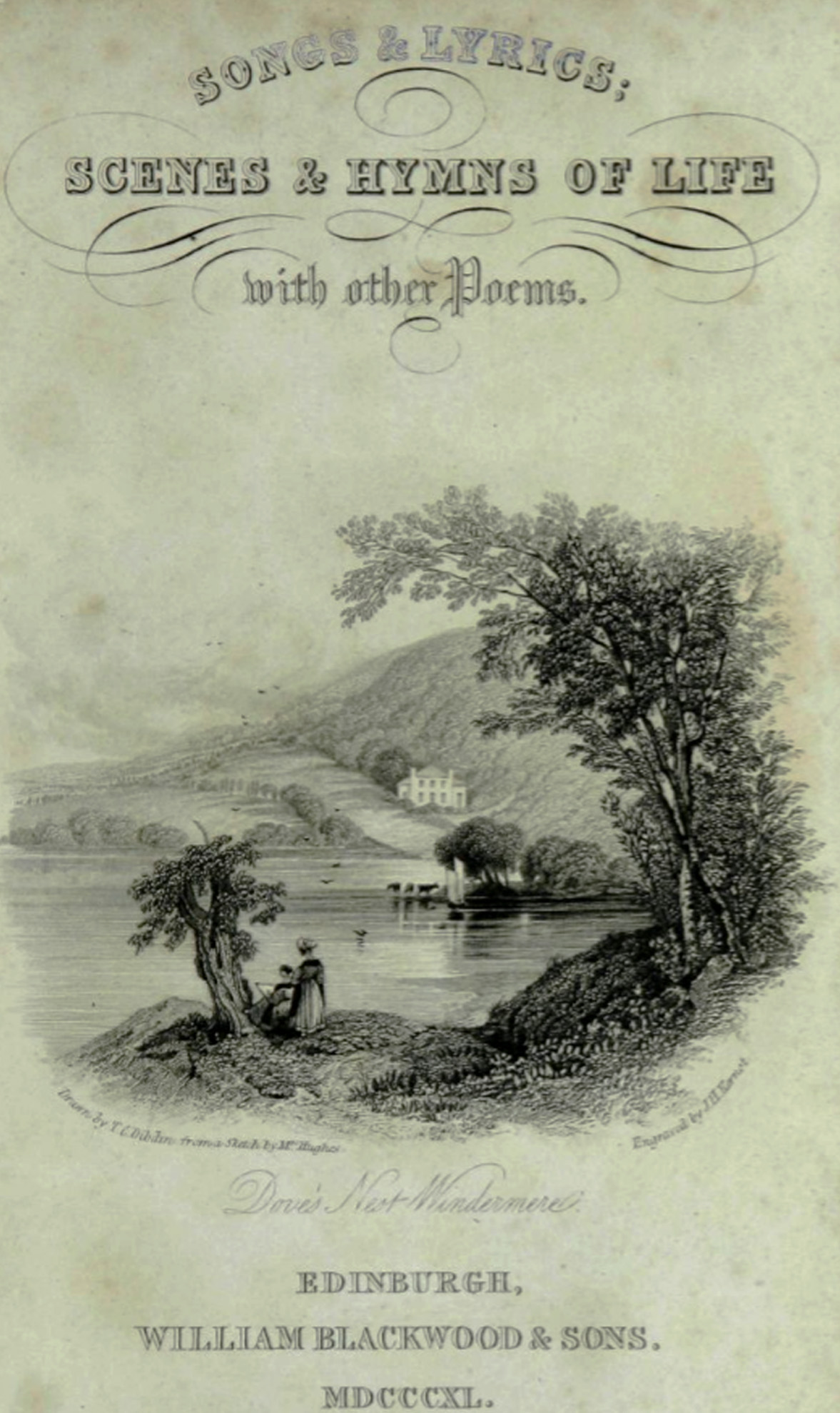 Engraving of Dove's Nest Windermere in 1840